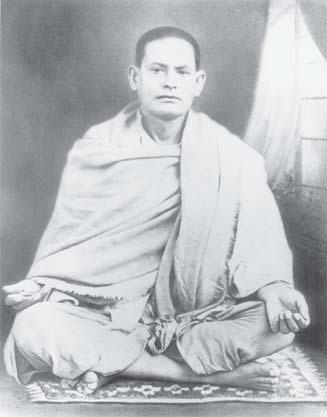 Swami Premananda, a direct disciple of Ramakrishna Paramahamsa